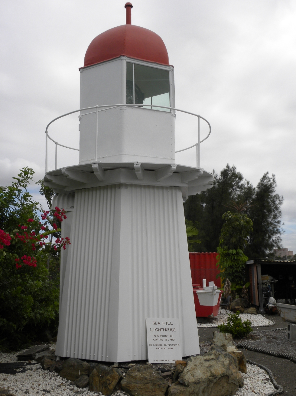 Exhibits at Gladstone Maritime Museum, Central Queensland, Australia. Sea Hill Lighthouse - NW point of Curtis Island - 1873 (replaced in 1960). Lighthouse now on exhibit at the museum.